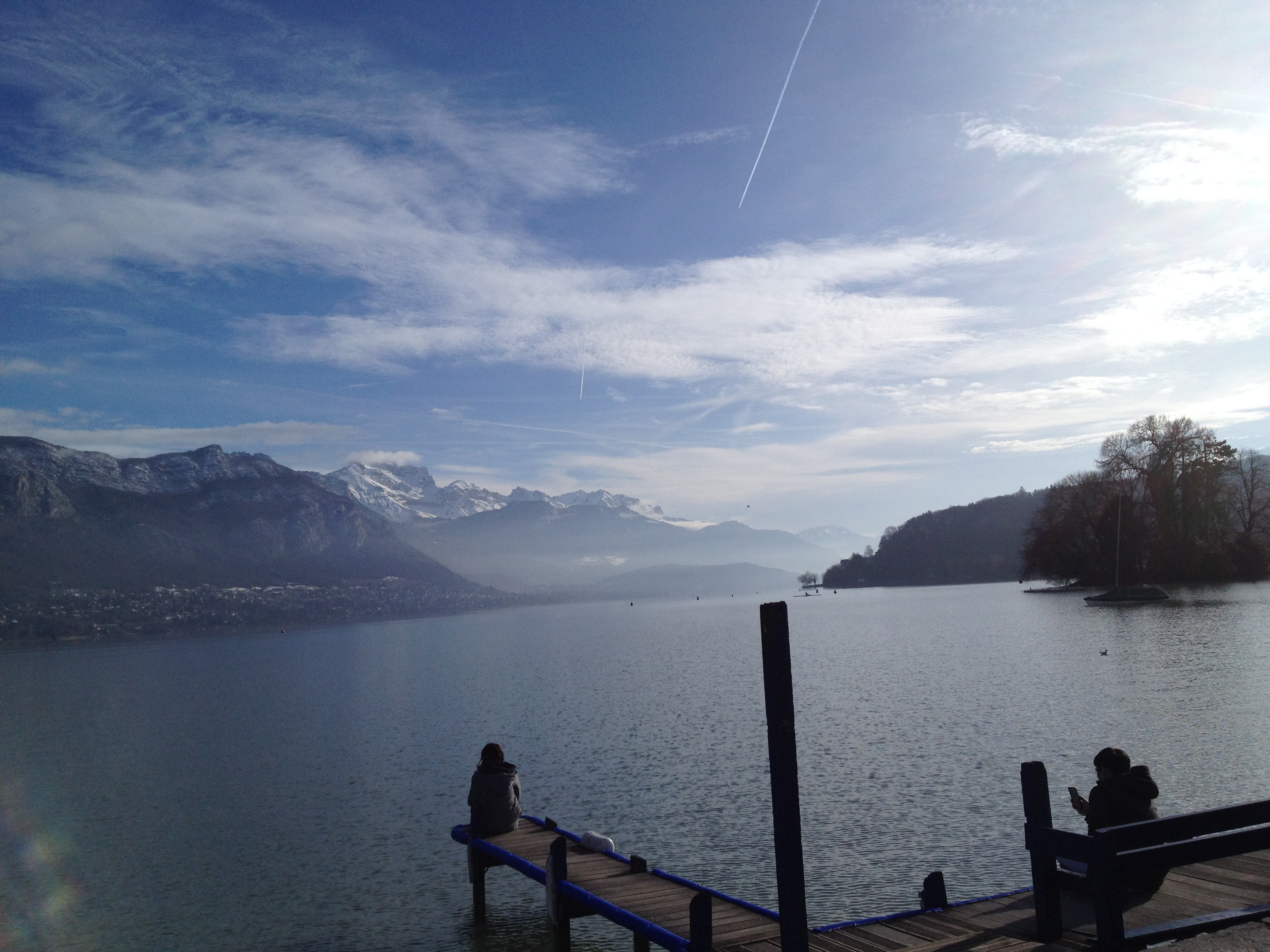 This is the Annecy Lake